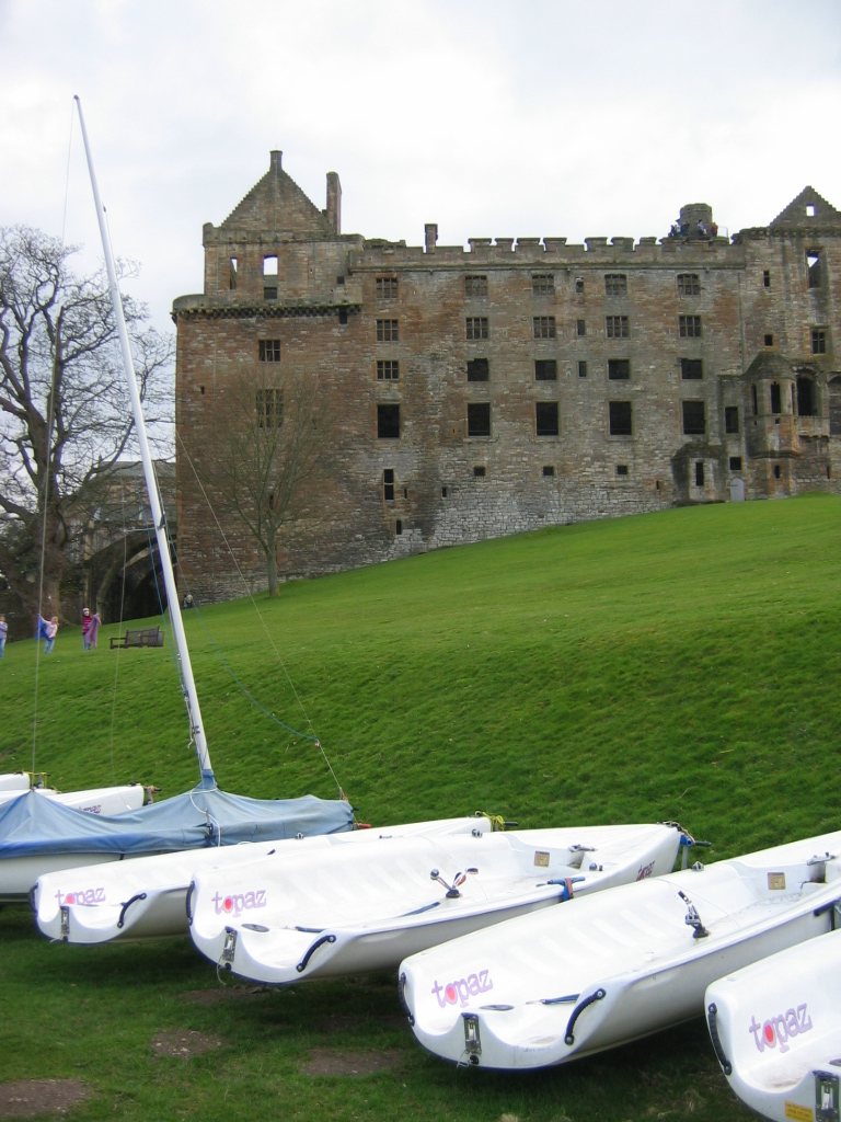 Linlithgow Loch, West Lothian, Scotland